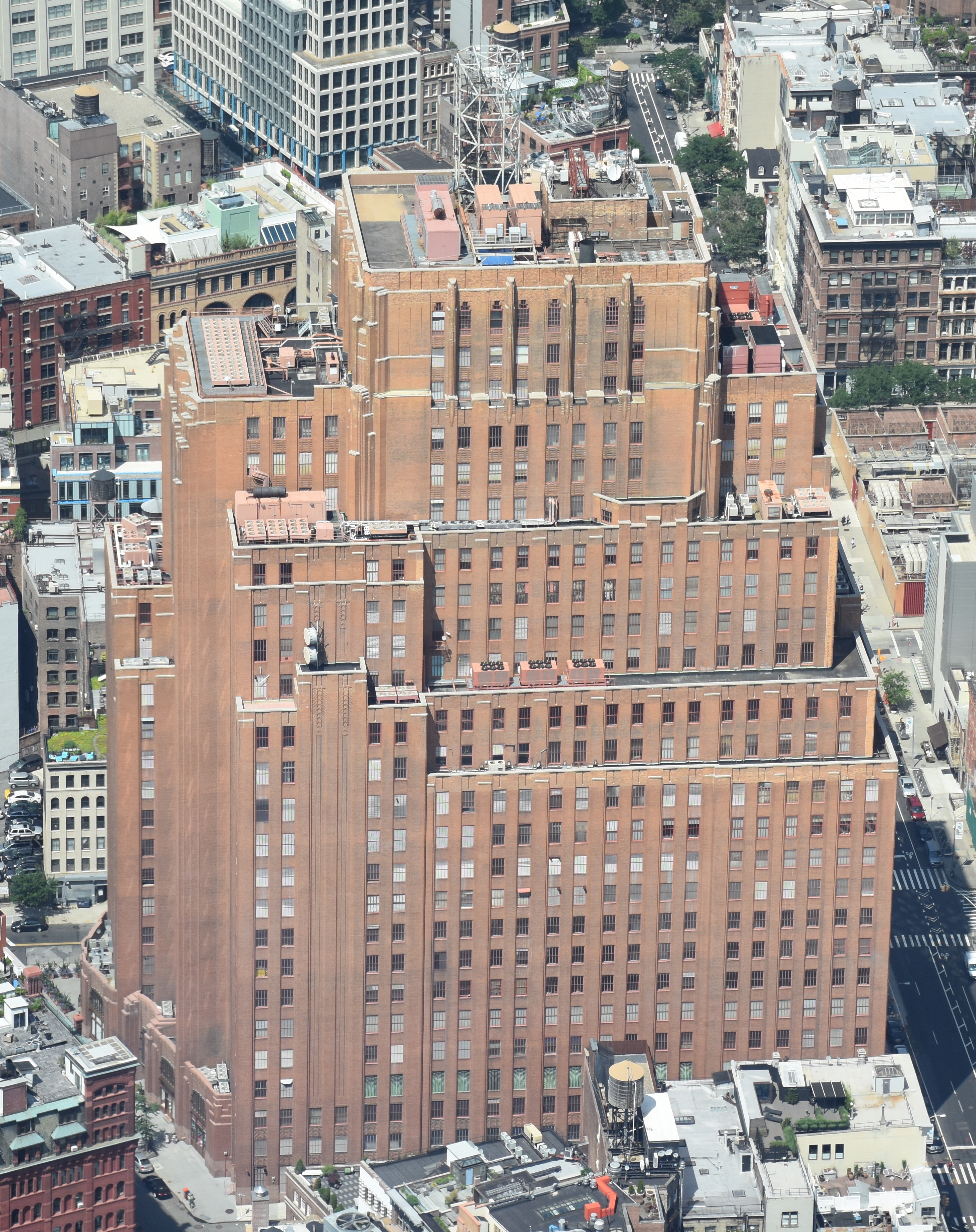 60 Hudson Street as seen from One World Observatory in June 2015